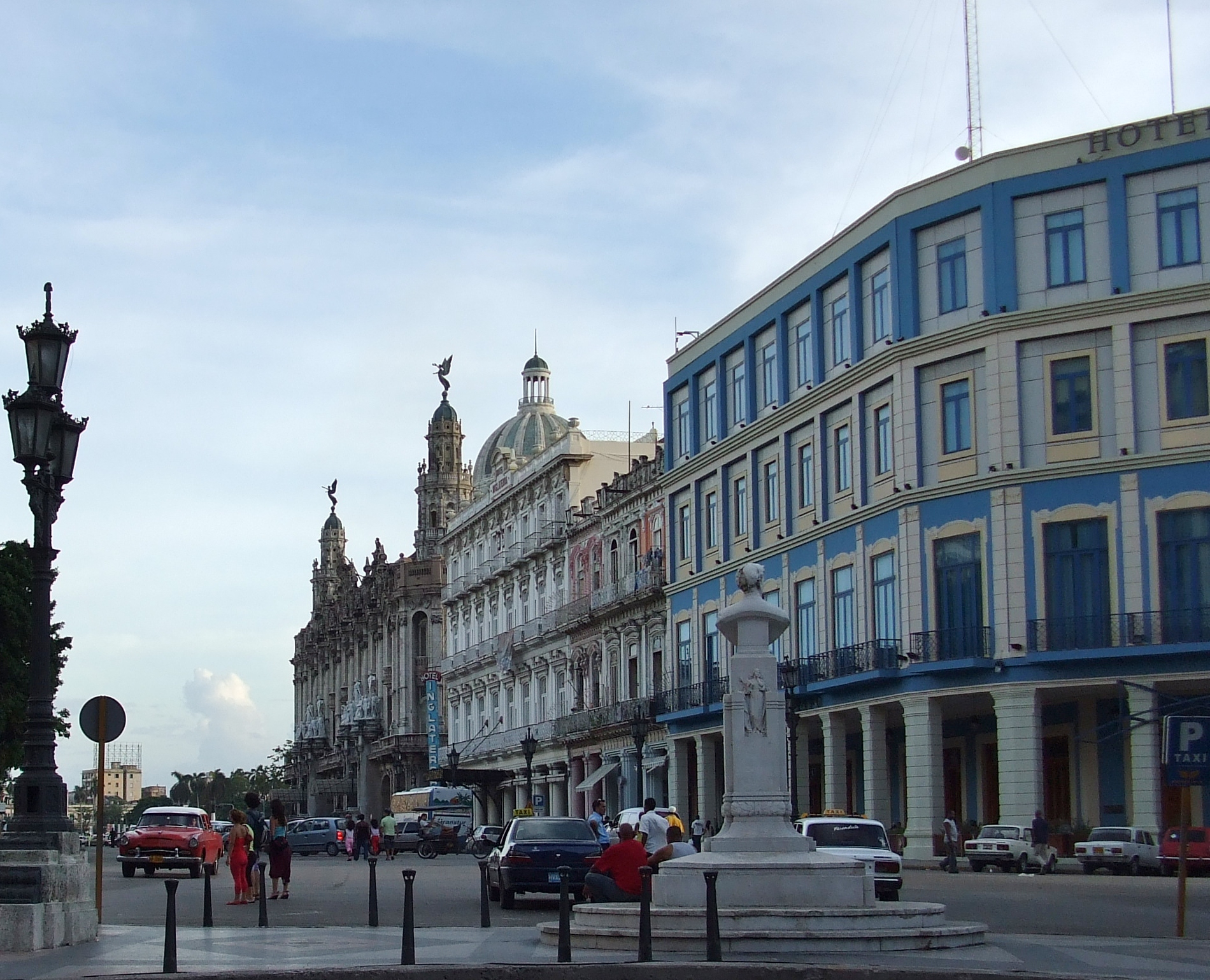 Paseo del Prado, Centro Habana